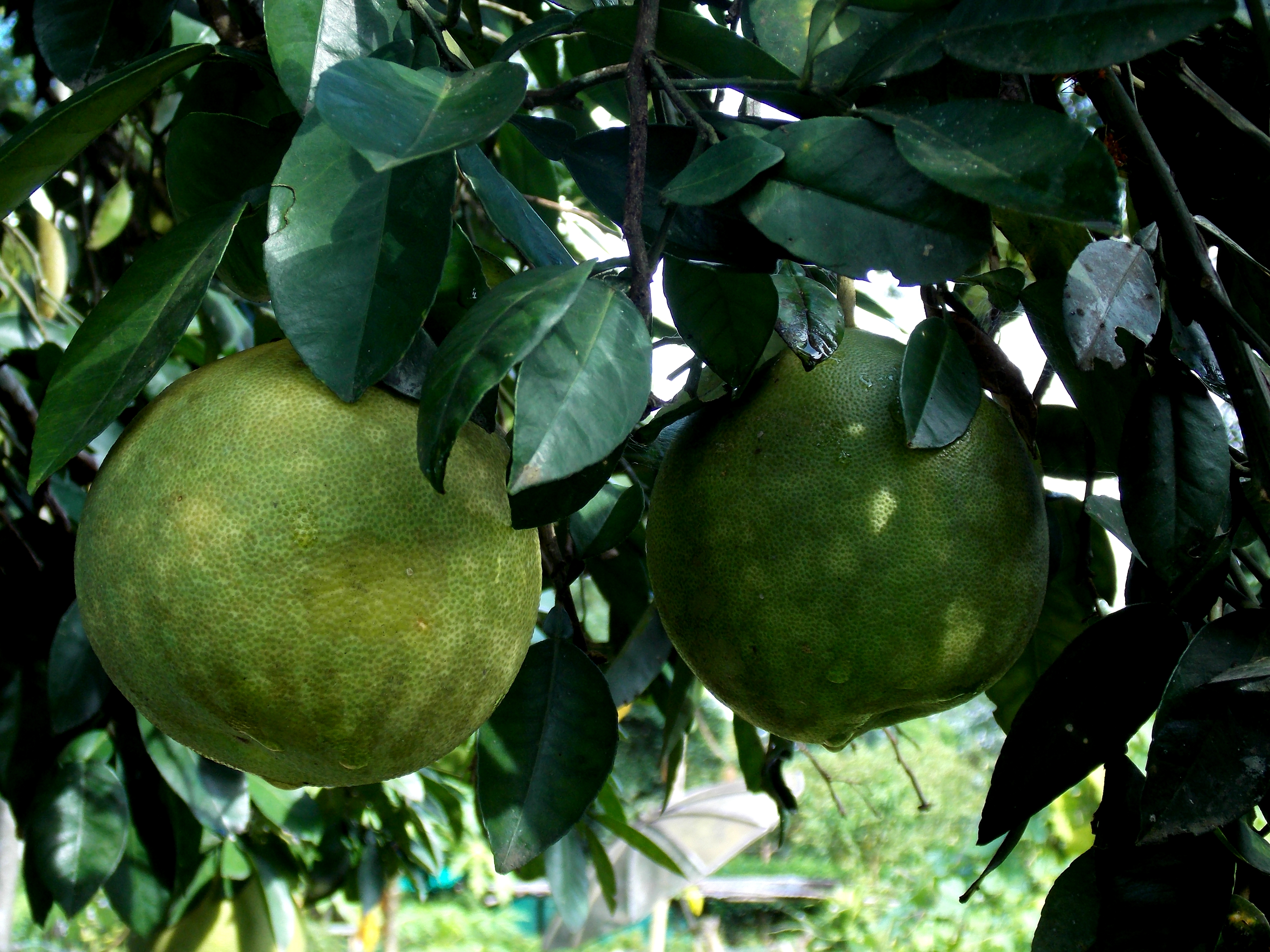 Citrus grandis , Inaia,Assam, local nane , Robab Tenga